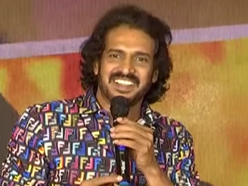 Indian actor and filmmaker Upendra at a press meet in March 2019.